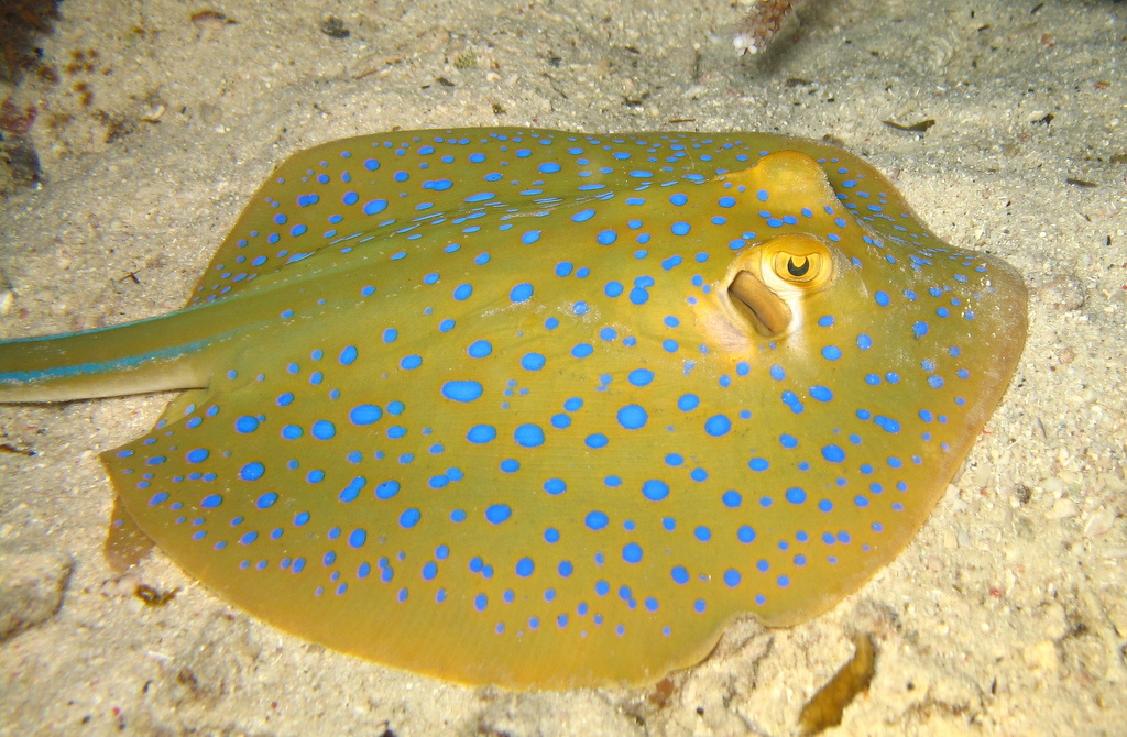 A blue-spotted stingray seen in the coast of Southern Leyte Islands, Philippines